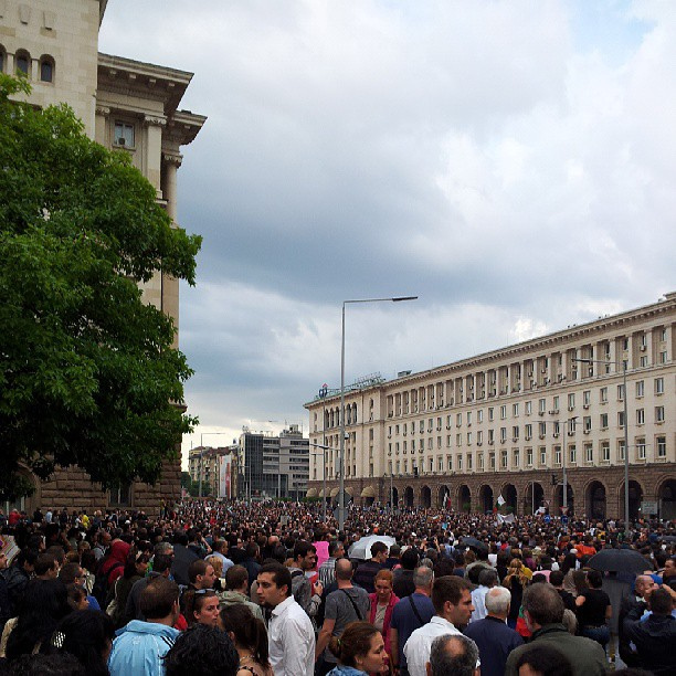 First day of 2013–14 Bulgarian protests against the Oresharski cabinet